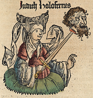 Judith with the head of Holofernes (from Deuterocanonical/apocryphal Book of Judith). Woodcut from the Nuremberg Chronicle